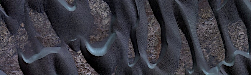 (ESP_062069_1890) Nili Patera Dunes - Mariagat modified fragment of photo by NASA/JPL/University of Arizona - We ♥ Mars